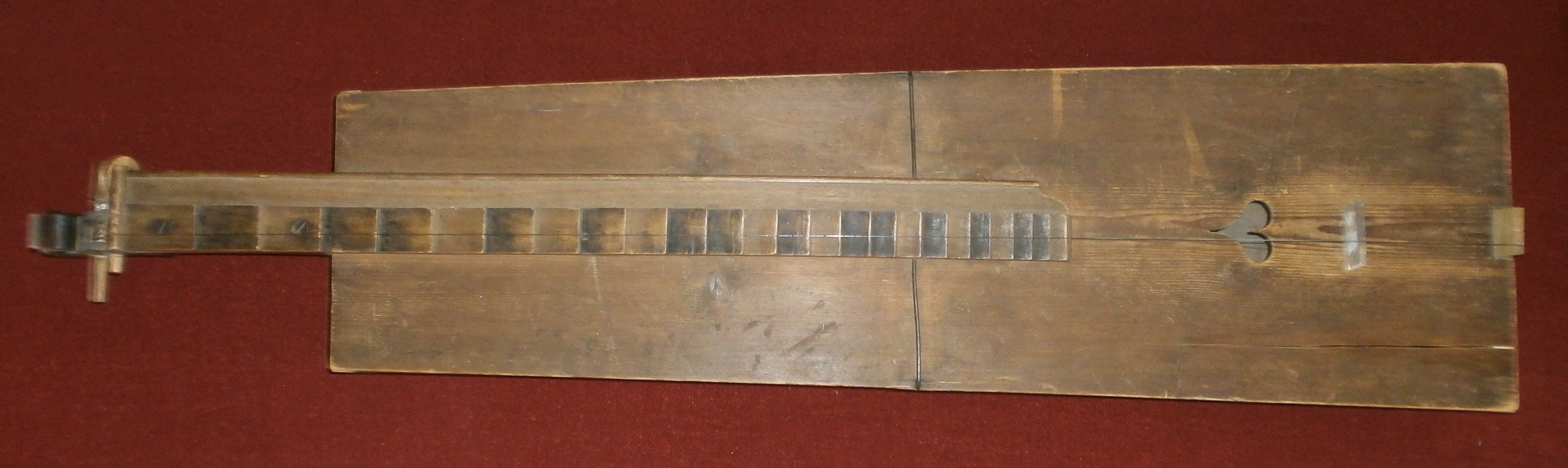 Psalmodicon. A bowed string instrument, used to teach children psalms. This has had three strings, only one remains.